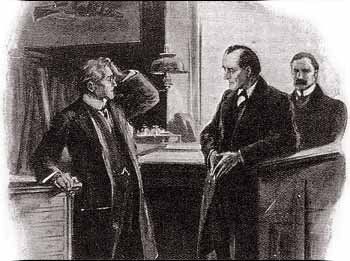 Sherlock Holmes in "The Adventure of the Bruce-Partington Plans."